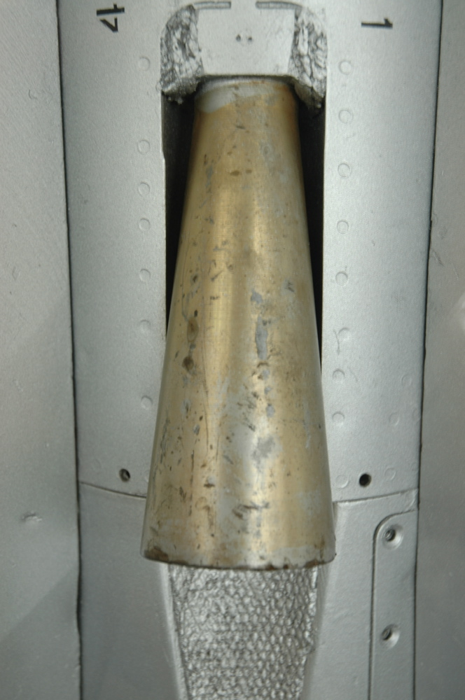 Nozzle of the rocket engine on the K-5M air-to-air missile